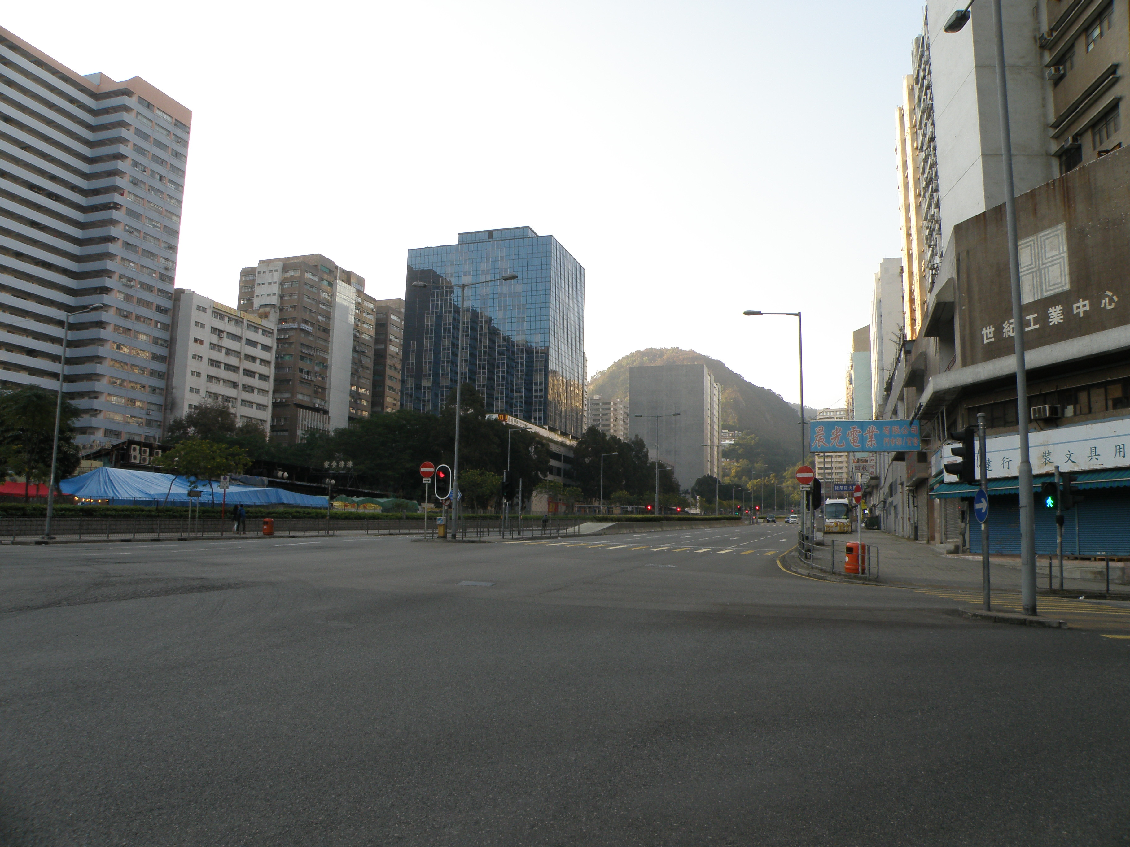 Fo Tan Road in Fo Tan, Hong Kong.